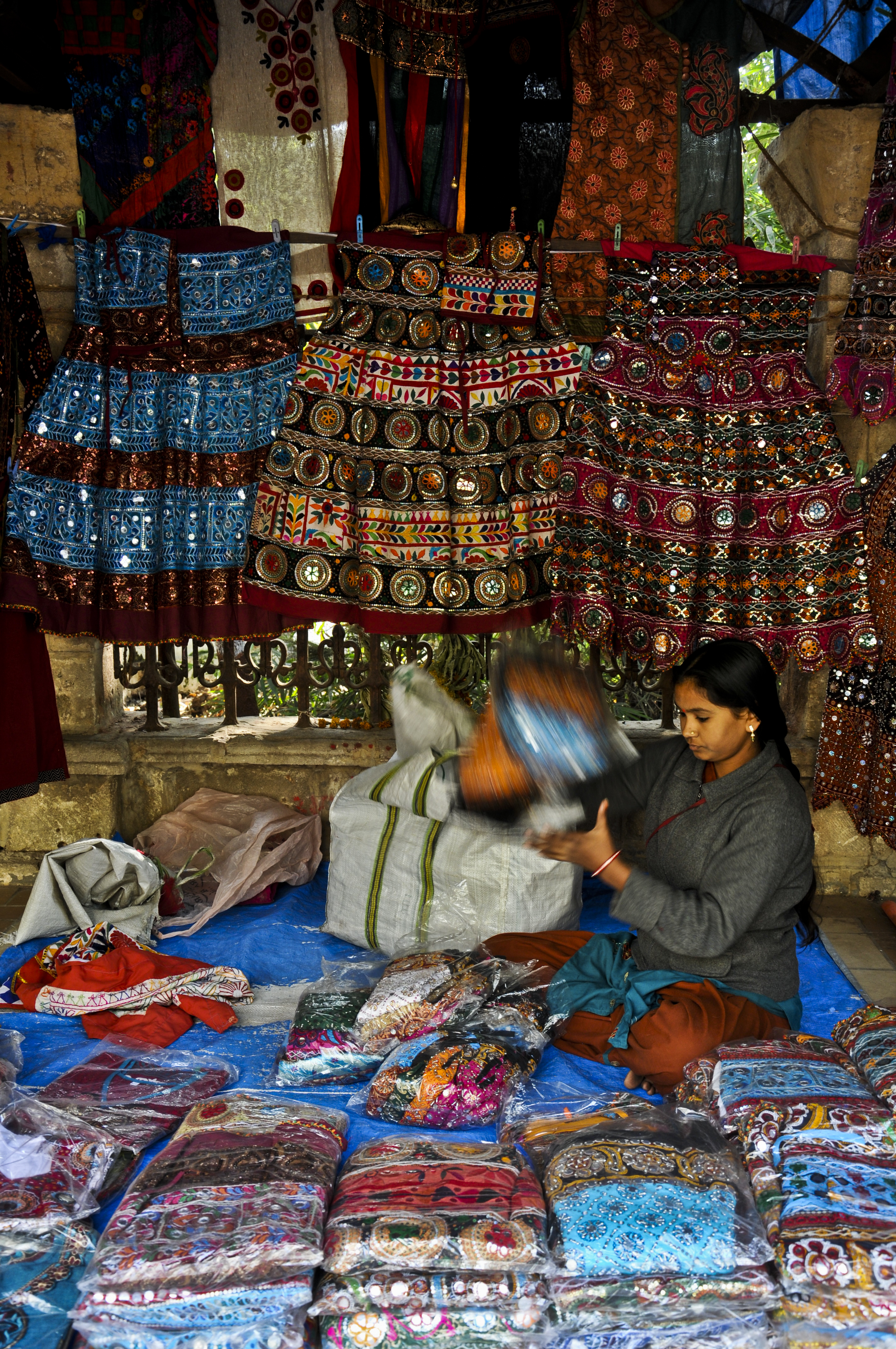 Chania Choli Seller at Law Garden